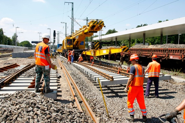 Reconstruction Frankfurt am Main Stadion Stadtion